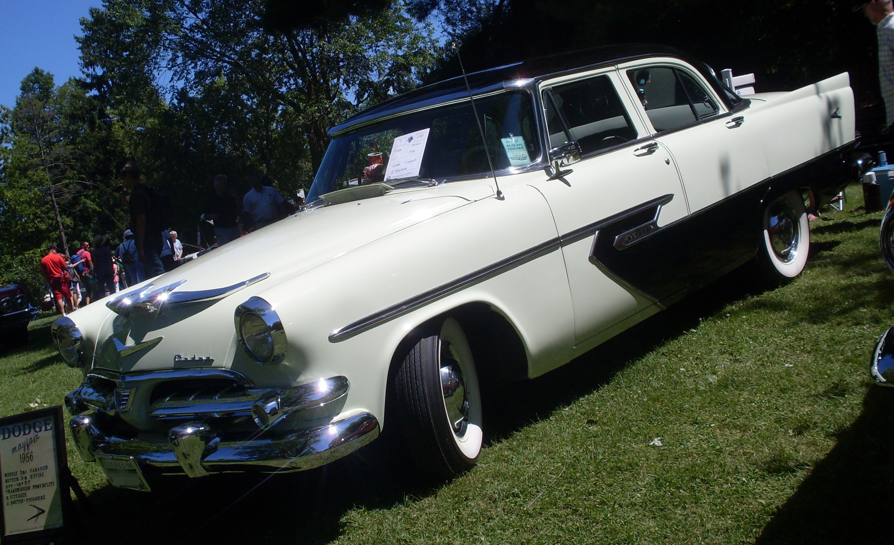 1956 Dodge Mayfair photographed at the 2013 VACM Chambly auto show in Chambly, Quebec, Canada.